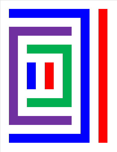 thumb|right|300px|Left: LELELELE implementation of above pattern. Right: SADP implementation of above pattern, using fewer masks.For pitch division by 3, four rather than the expected three masks may be required to be exposed separately, to address lines which bend in the perpendicular direction. Alternatively, SADP may be applied after fewer masks.